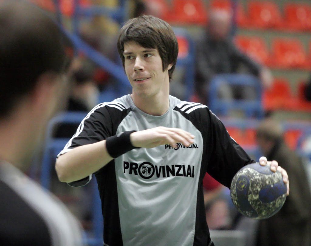 Kim Andersson, on December 30th 2006 in Aschaffenburg (Germany), during the warm-up prior the game TV Grosswallstadt - THW Kiel (25:30)